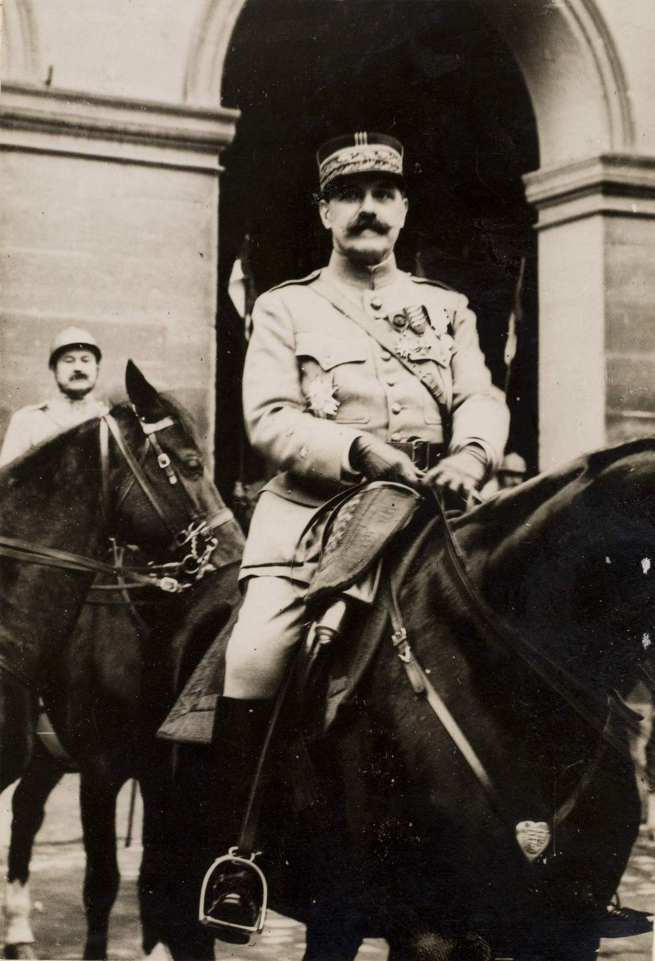 Le général Pierre Berdoulat, nouveau gouverneur militaire de Paris.